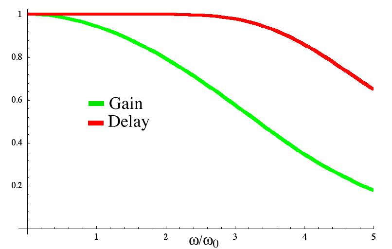 Plot of the gain and group delay for a fifth order Bessel electronic filter